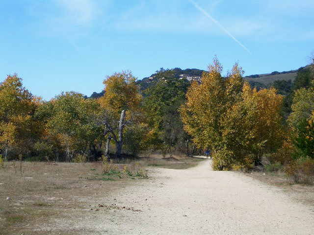 Fall colors in Garland Ranch Regional Park, Lupine Loop Trail